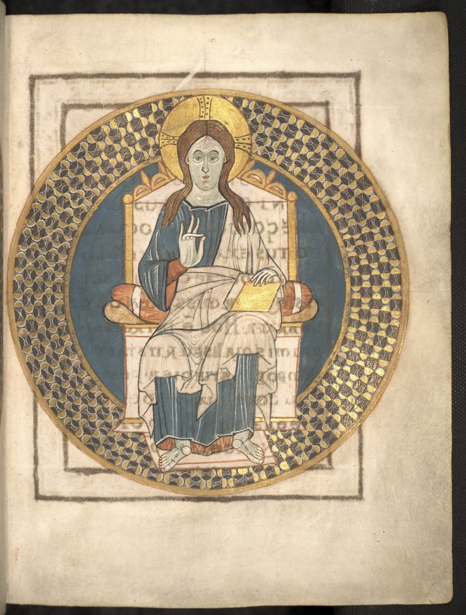 Illuminated page from the Petershausener Sakramentar (Cod. Sal. IX b) produced in the Benedictine Abbey of Reichenau on Reichenau Island.